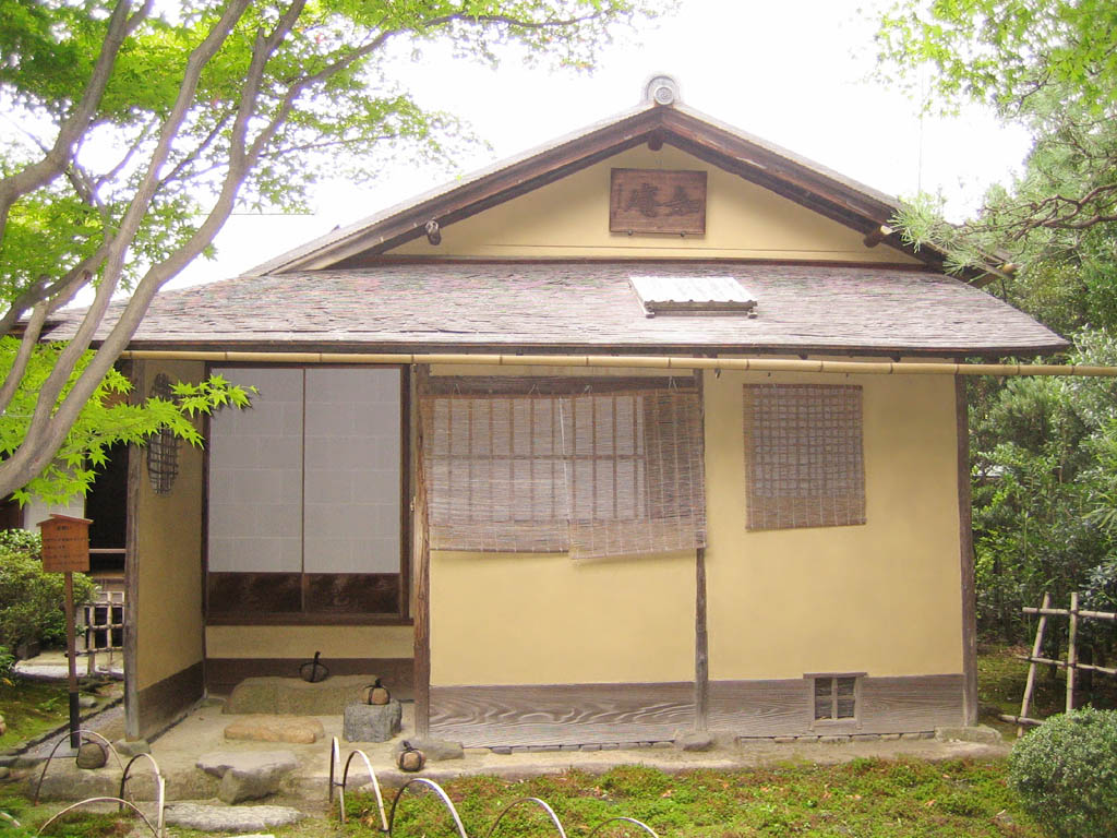 Tea house "Jō-an" (如庵) in "Urakuen" (有楽苑), in Inuyama, Aichi, Japan.